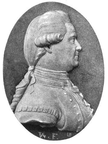 Carl Niclas (Niklas) von Hellens